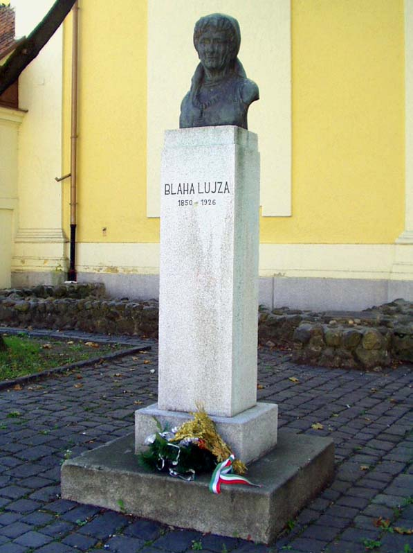 A statue of the Rimavska Sobota native Hungarian actress Lujza Blaha.